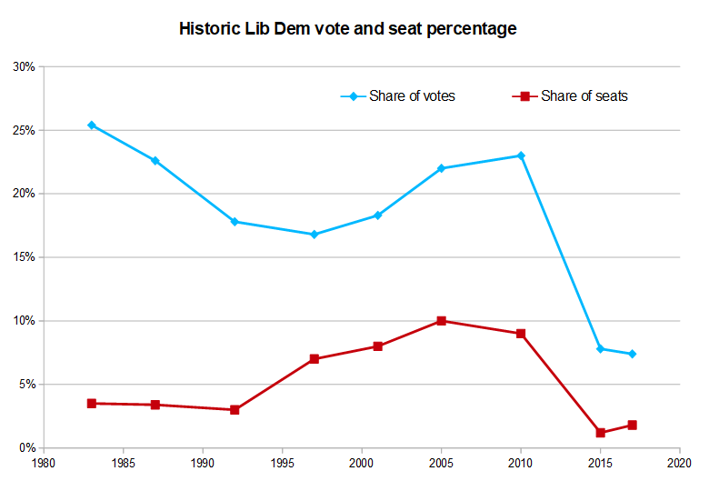 Graph of historical Lib Dem vote and seat percentage